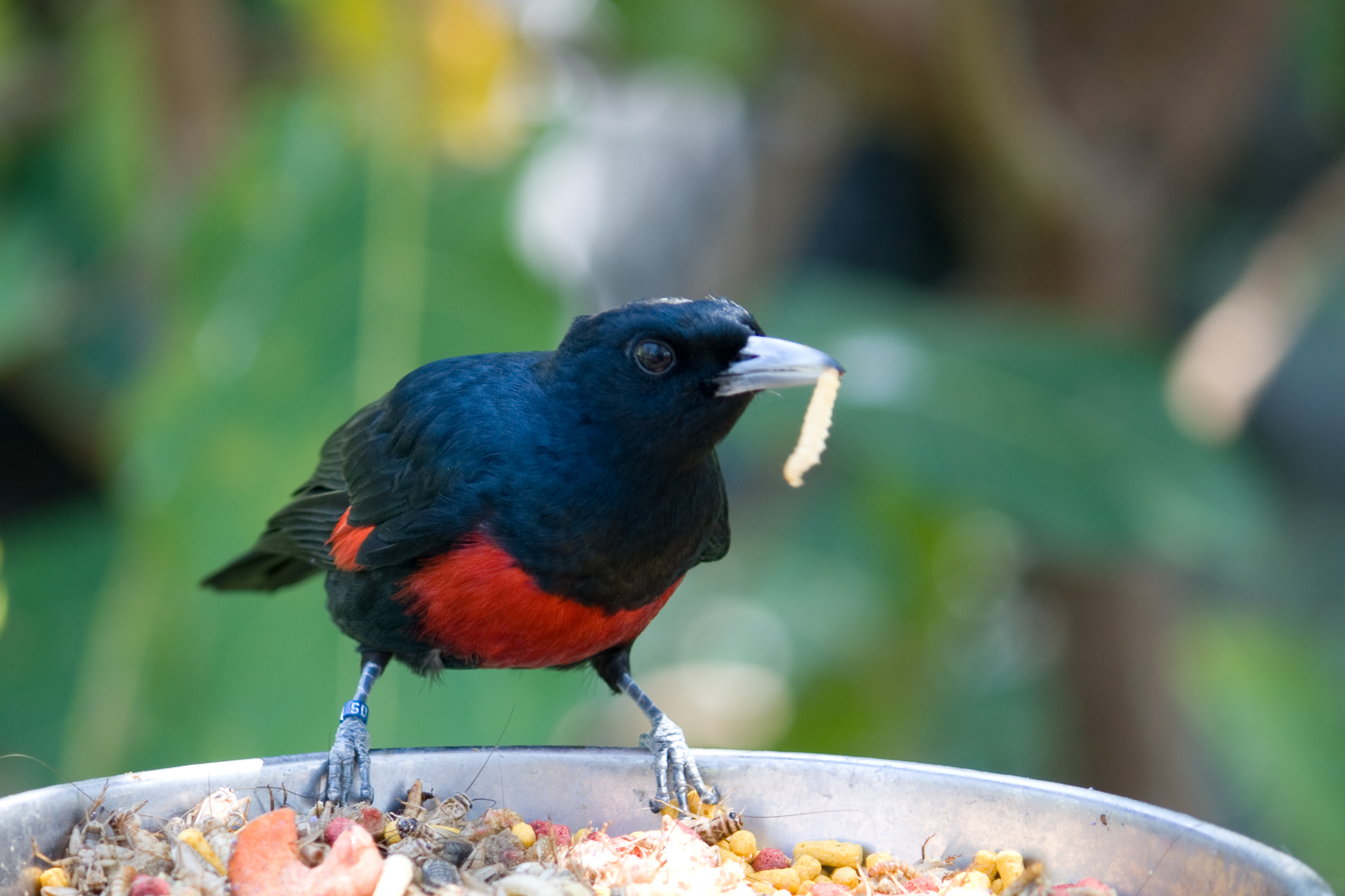 Black and Crimson Oriole ( Oriolus cruentus)